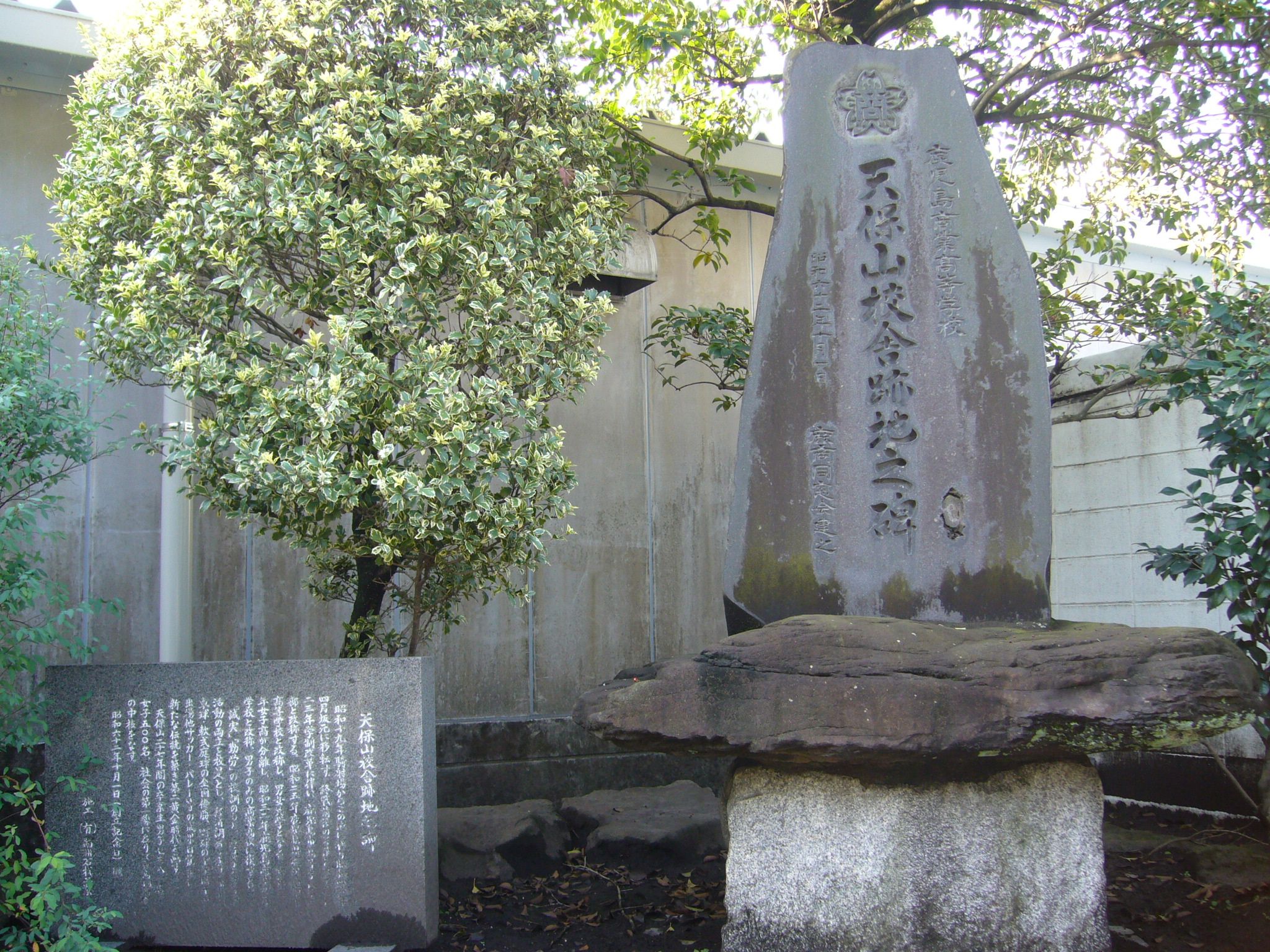 Monument of Kagoshima Commercial High School in Tempozan